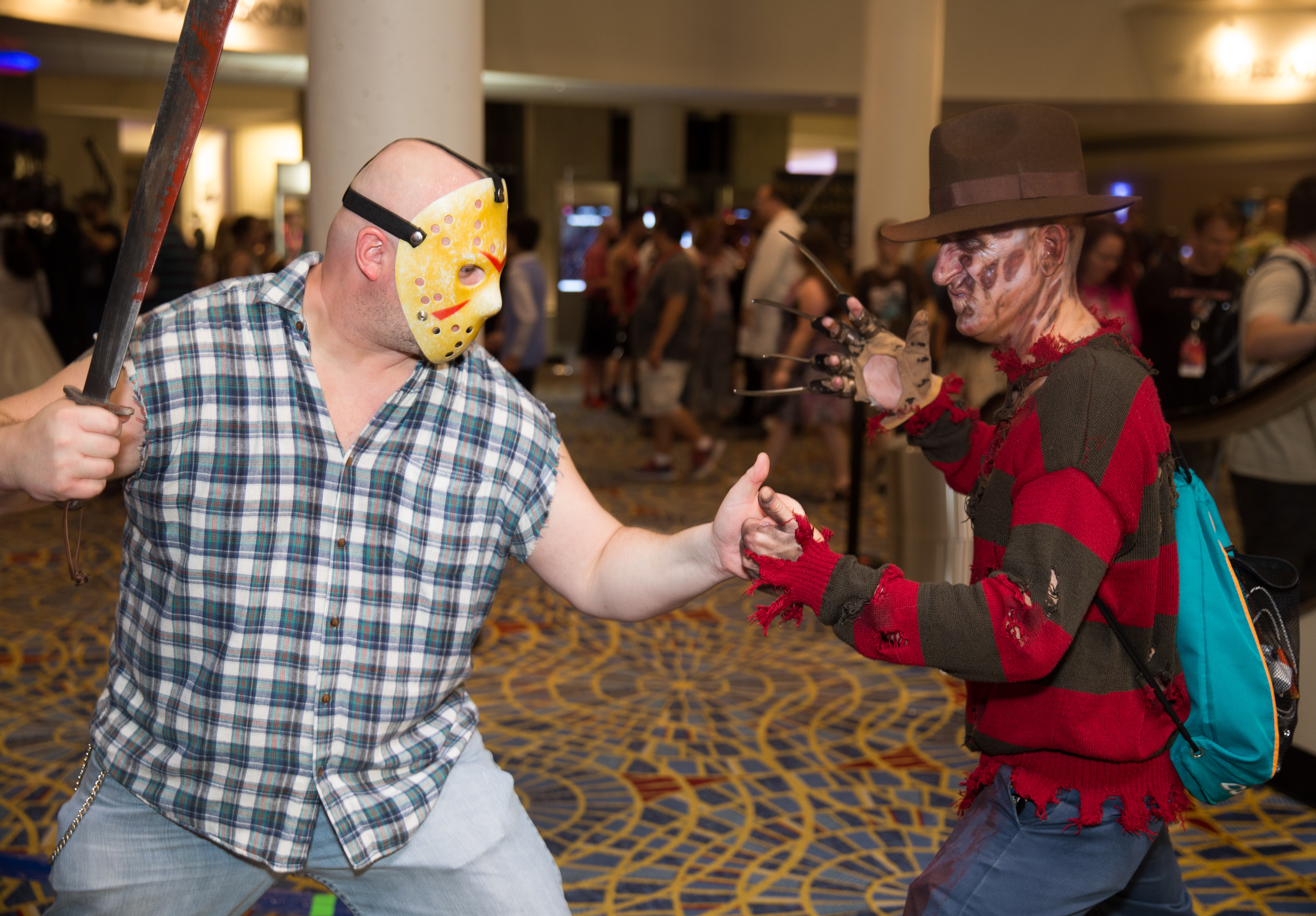 Freddy Krueger and Jason Vorhees having a thumb war Cosplay at Dragon*Con 2015.